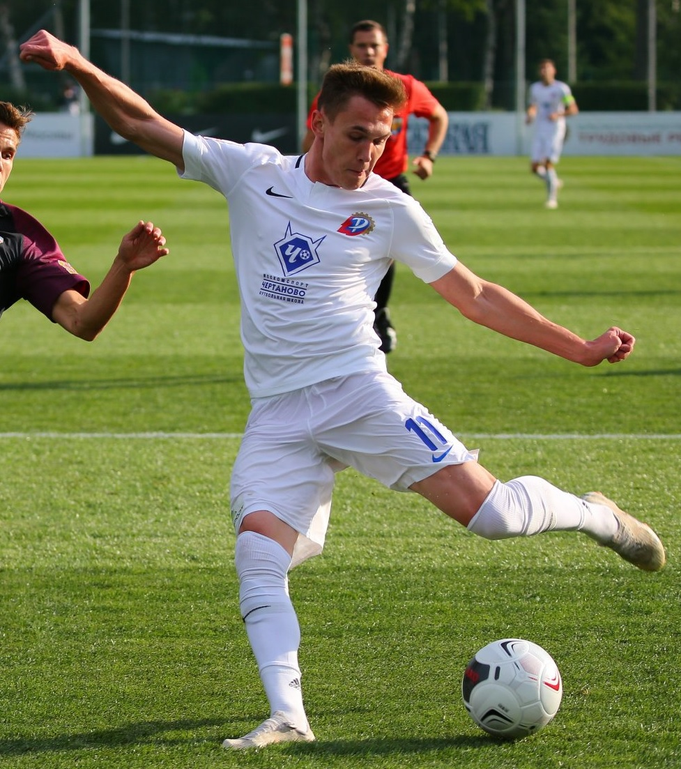 Roman Yezhov with FC Chertanovo Moscow in a game against FC Yenisey Krasnoyarsk.